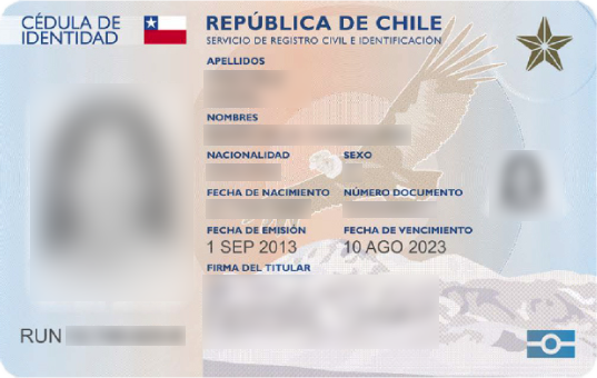 Identification card of Chile from 2013.